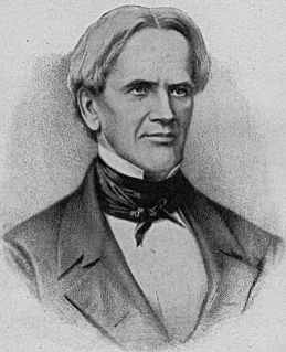 Image of Horace Mann